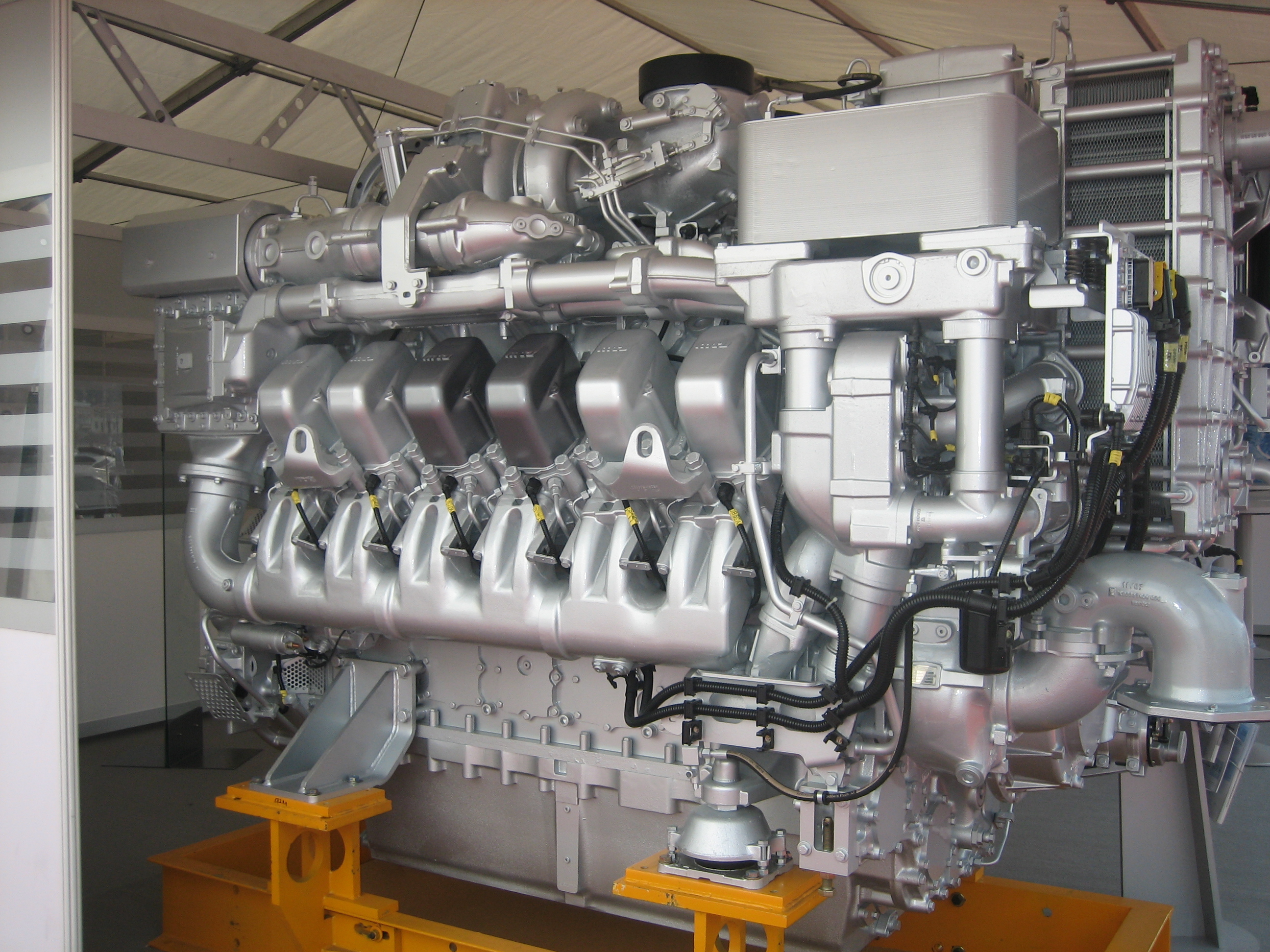 A MTU boat engine